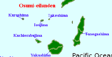 Map of the Ōsumi Islands, Kagoshima Prefecture, Japan